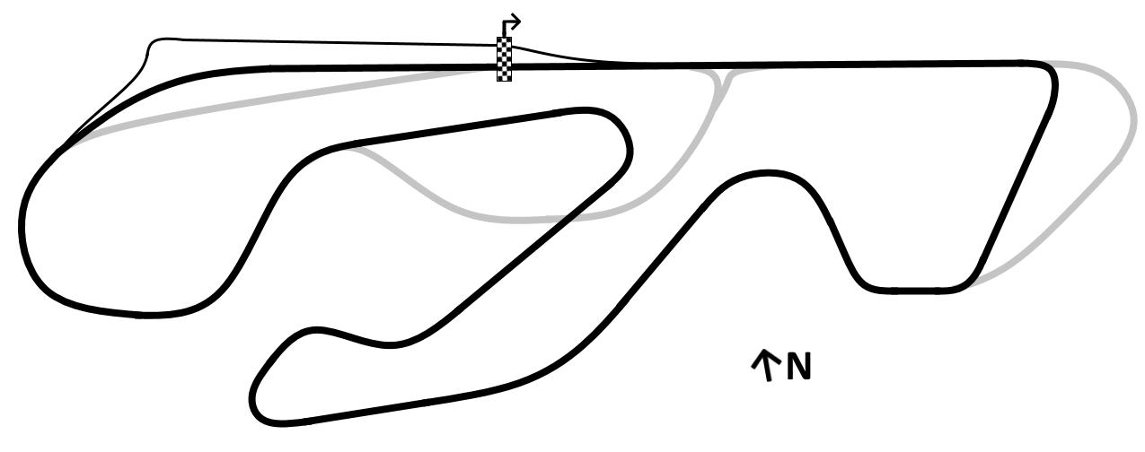 The track layout of Karlskoga Motorstadion, Örebro, Sweden, including the alternate track paths.